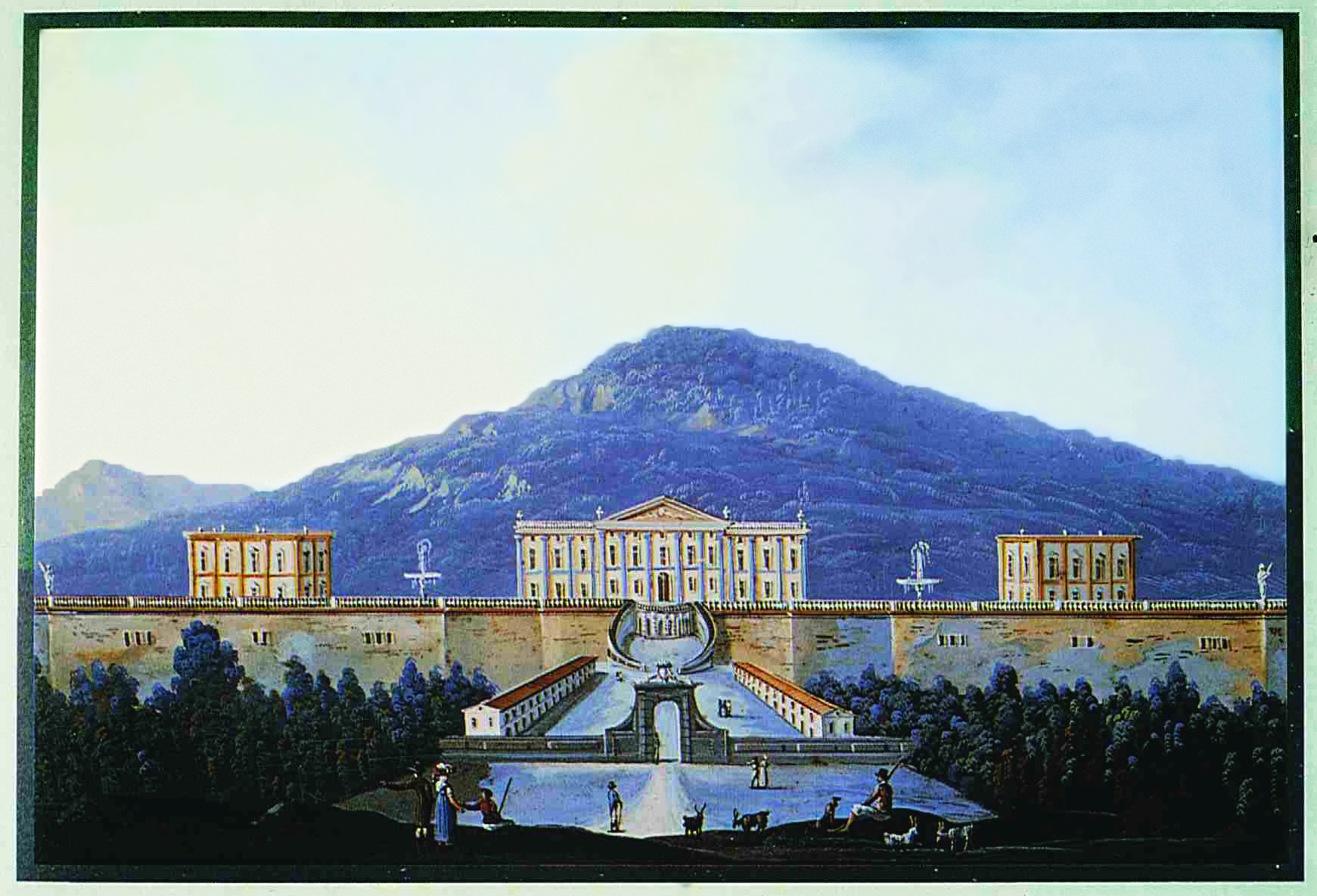 File name